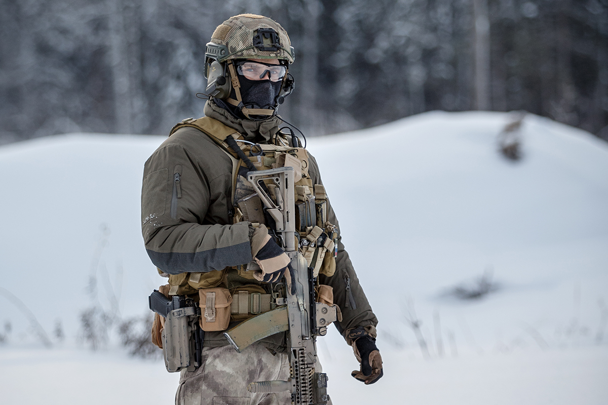 Russian Special Operations Forces photo from 27 February special operations forces day gallery.